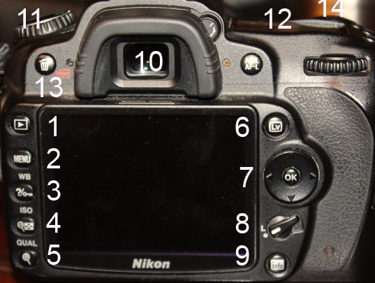 This is an interface for the Nikon D90, so people know how to use it. 1. View Photos 2. Open changeable menus 3. 4. When viewing images, makes them smaller (can open up image selection view) 5. When viewing images, magnifies images. 6. Changes to video and back 7. Move: Move through images and menu settings 7a. Ok: In the middle of the move circle is the Ok button. This is the selection button. 8. Lock button 9. Info: Shows the information of the camera. (Setting, battery power, shutter speed, image quality) 10. Viewfinder: Scope, you look through here in order to see what you are going to take. 11. Settings: Almost a standard on all cameras. Changes the amount of flash per type of object, appears on info. 12. Main place for showing info: See #9 13. Delete button. Deletes photos on viewer. Asks a prompt before deletion. 14. On/off. 14a. Take button: Best for last, on click, this button takes a photo.